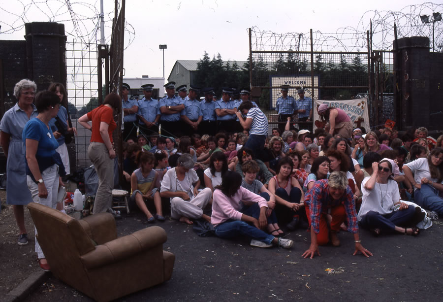 MOD Police at Main Gate of RAF Greeham Common in 1982MDP face a protest from Peace Women at USAF Greenham Common in 1982